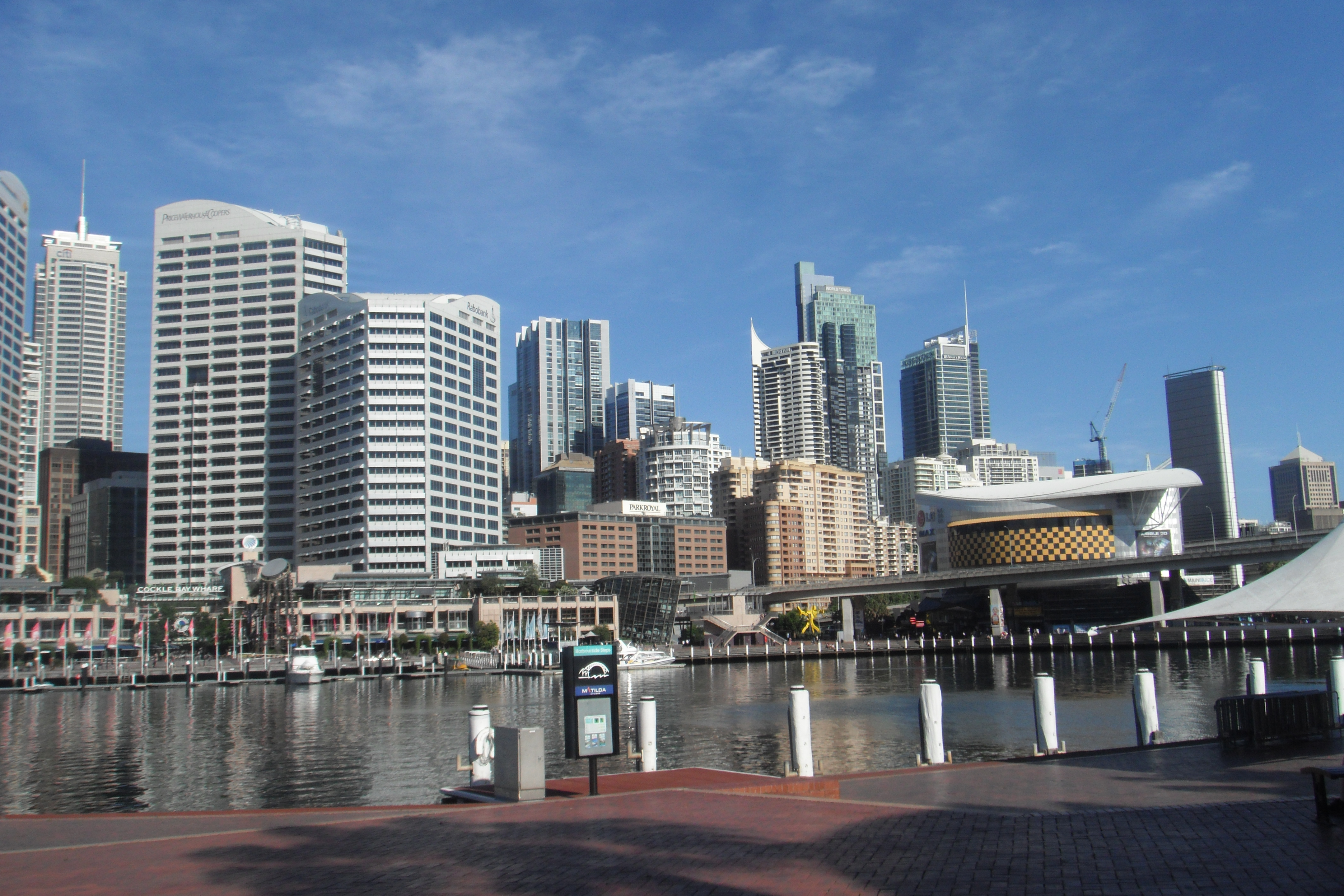 Centre of Sydney